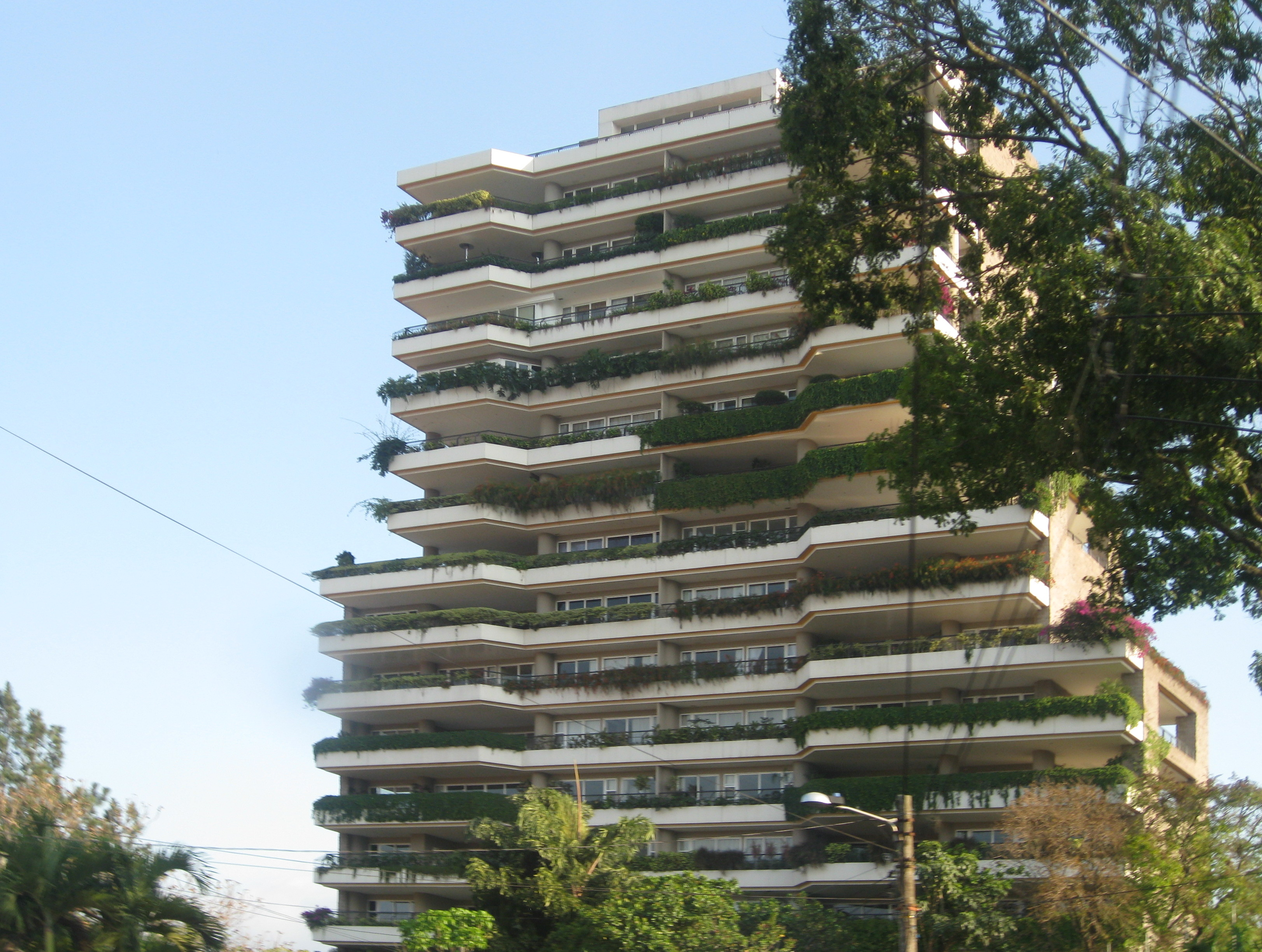 Apartment Zone